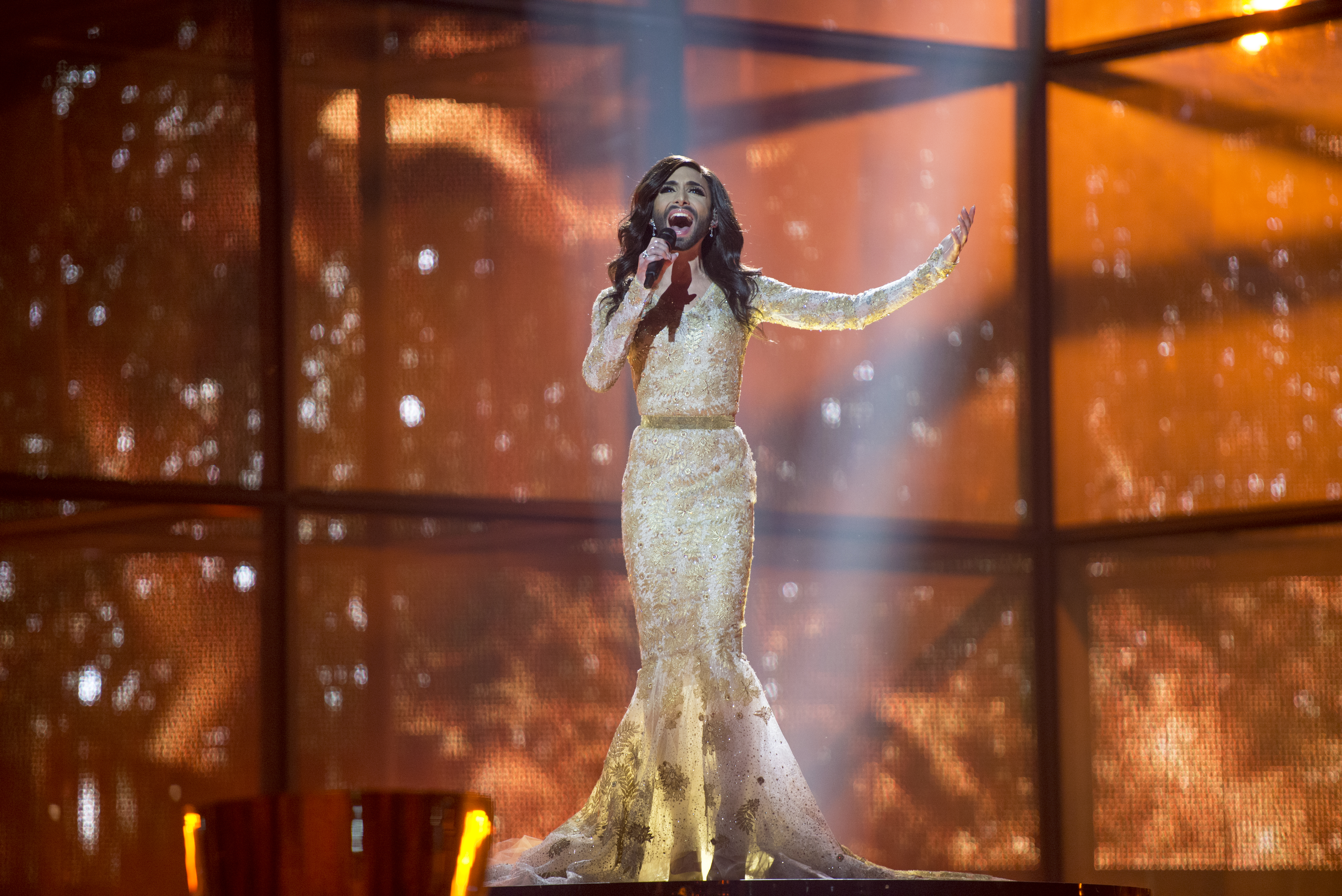 Conchita Wurst representing Austria with the song "Rise Like a Phoenix" during the first dress rehearsal of the second semi final of the Eurovision Song Contest 2014 Copenhagen. (Help translate this text)